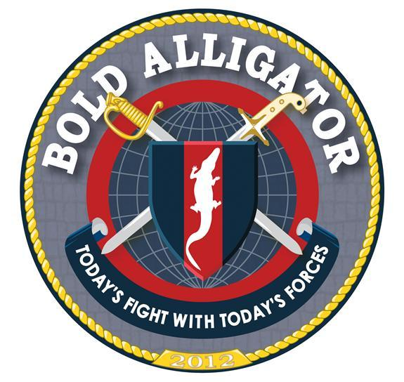 WASHINGTON (Dec. 15, 2011) The official logo of the amphibious exercise Bold Alligator 2012. (U.S. Navy photo illustration by Mass Communication Specialist Communication Specialist Julie Matyascik/Released)